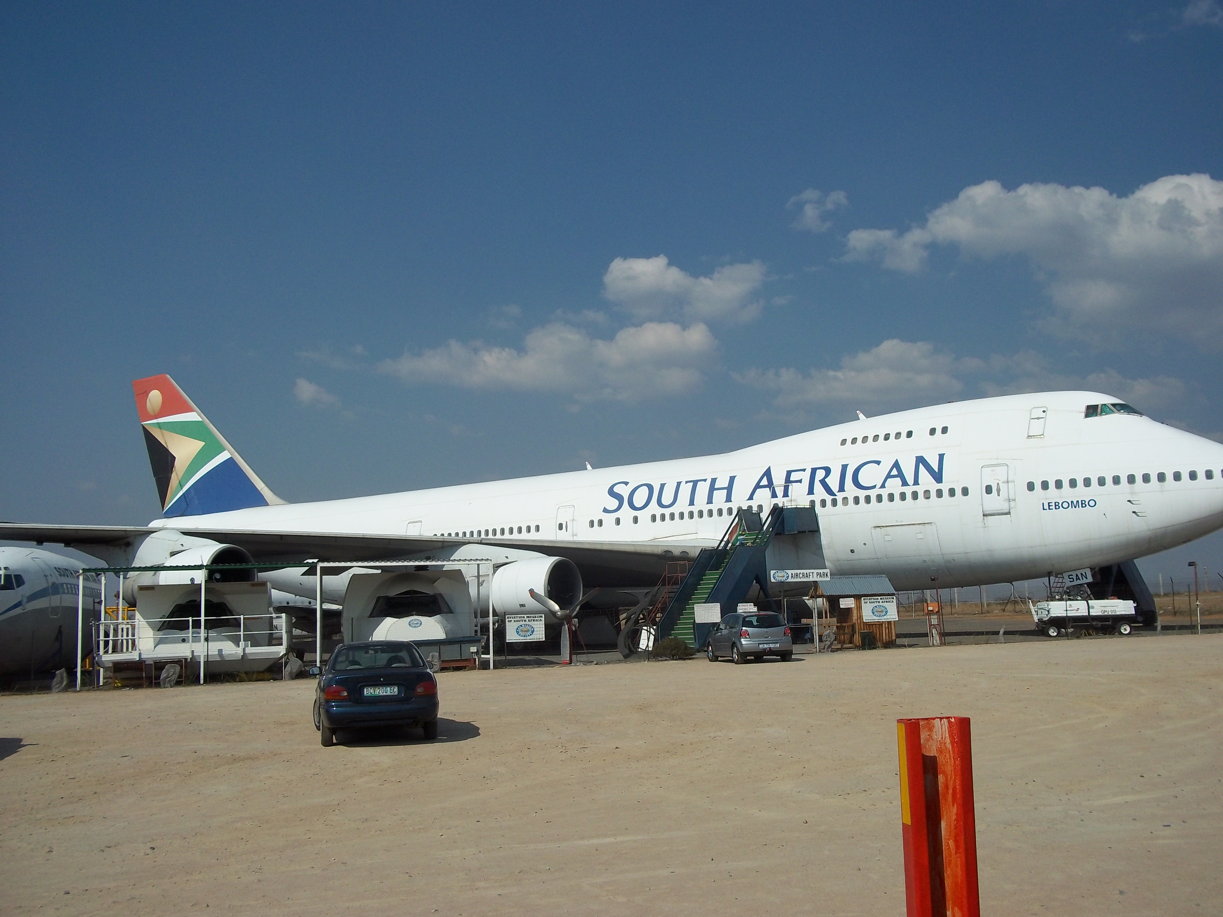 The "Lebombo", a retired Boeing 747 from South Africa Airways is on display at the SAA Museum at Rand Airport, South Africa. Two simulators, also donated to the museum can be seen bottom left.